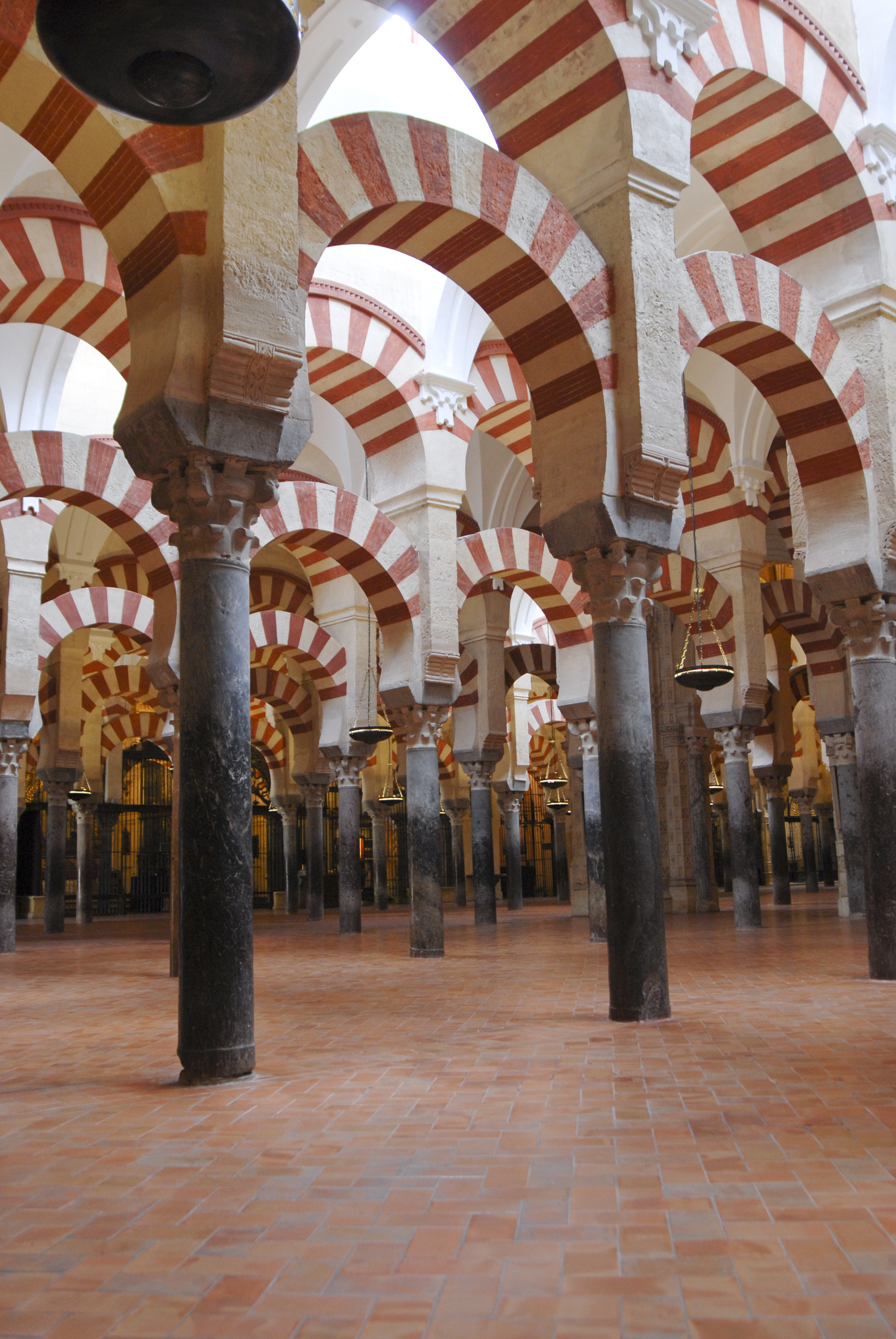 Interior of Mezquita de Cordoba